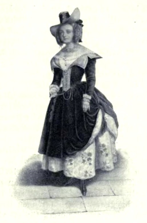 French singer Zoë Prévost as Effie in Adolphe Adams Le brasseur de Preston. After a drawing by A. Lacauchie 1841. Image from Nils Personne: Svenska Teatern VIII (1927).